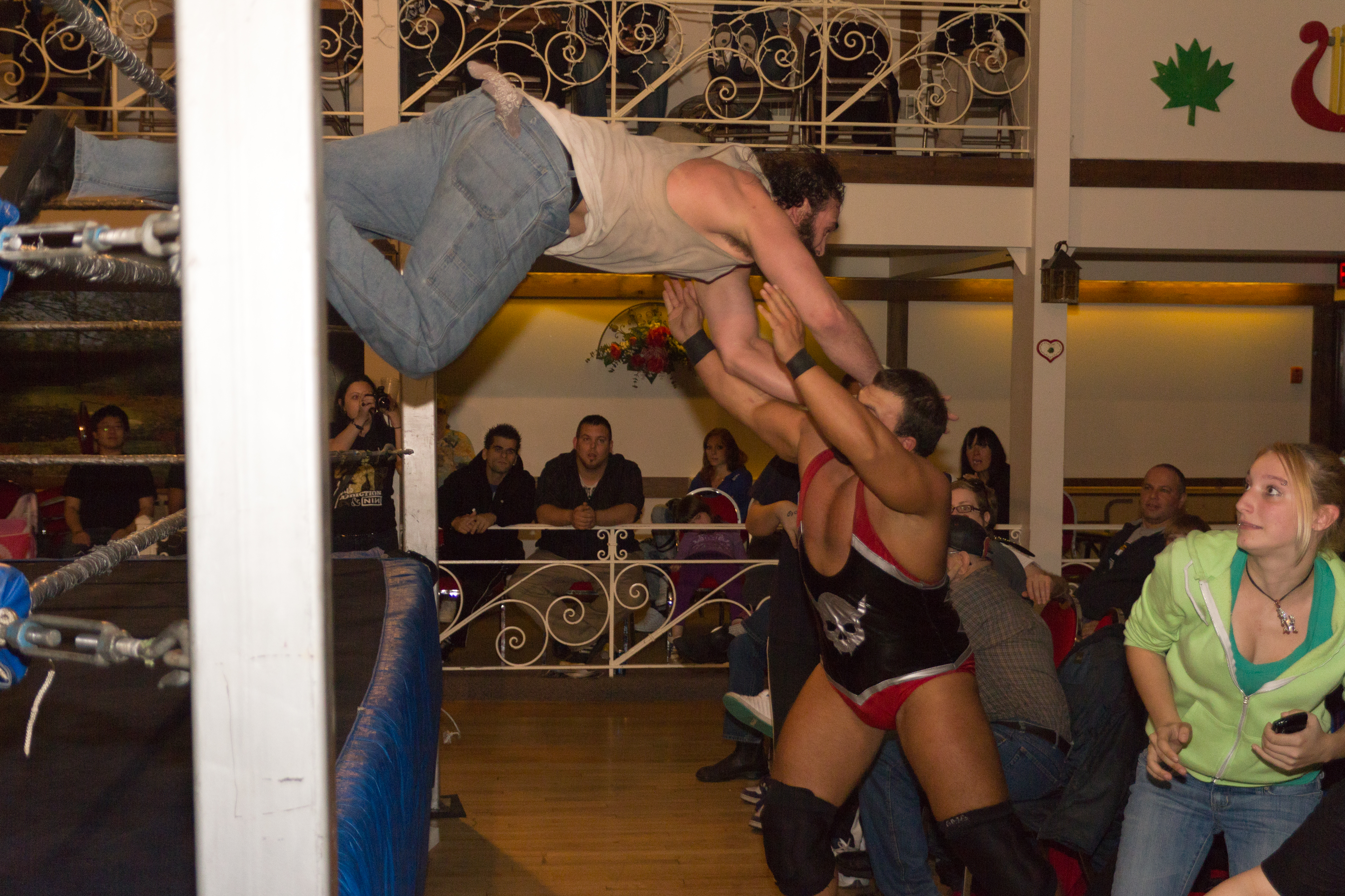 Brodie Lee performing a suicide dive onto Michael Elgin at Alpha-1 Wrestling: Final Act 2 in 2011.